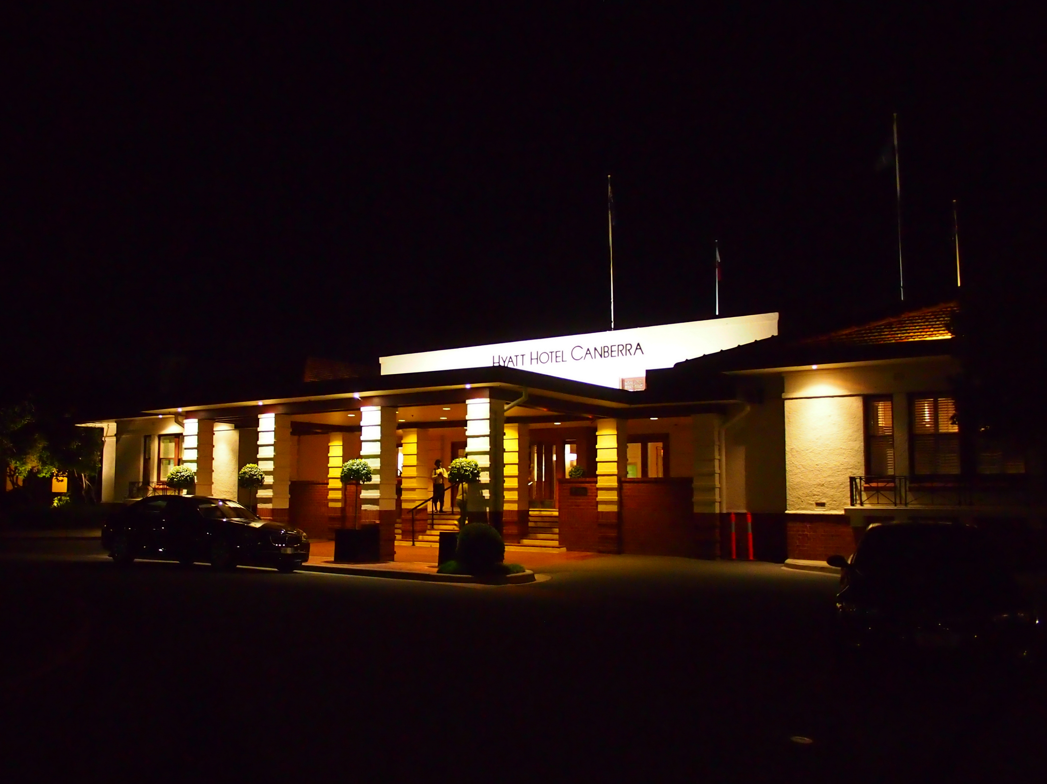 The main entrance to the Hyatt Hotel Canberra at night